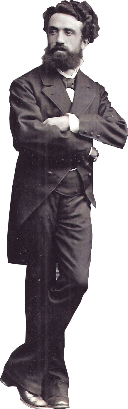 Alessandro Mentasti, italian organbuilder - 1870